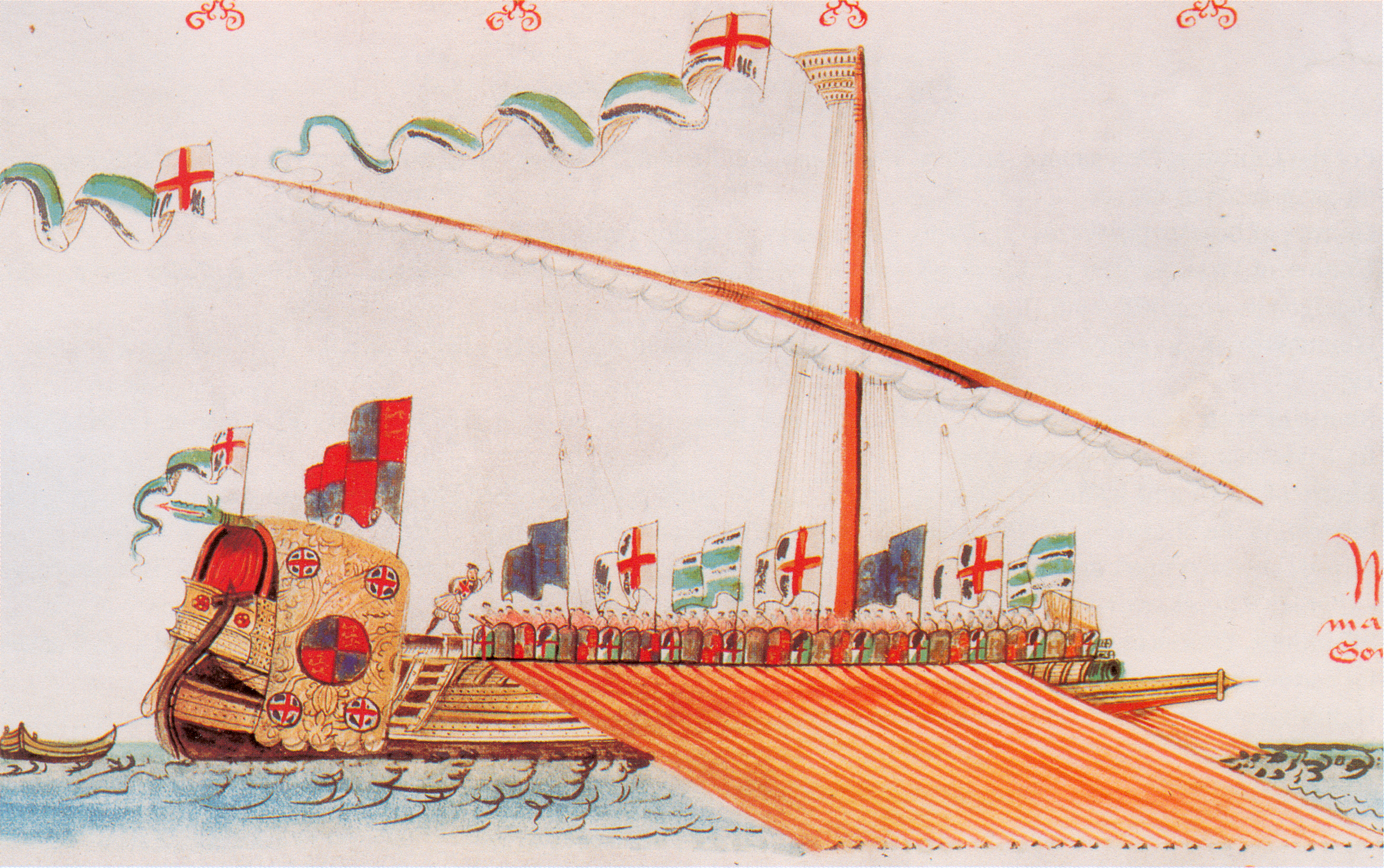 Illustration of the Galley Subtle. Notification about possible deletion Cathsuth (talk) 16:17, 9 February 2017 (UTC)